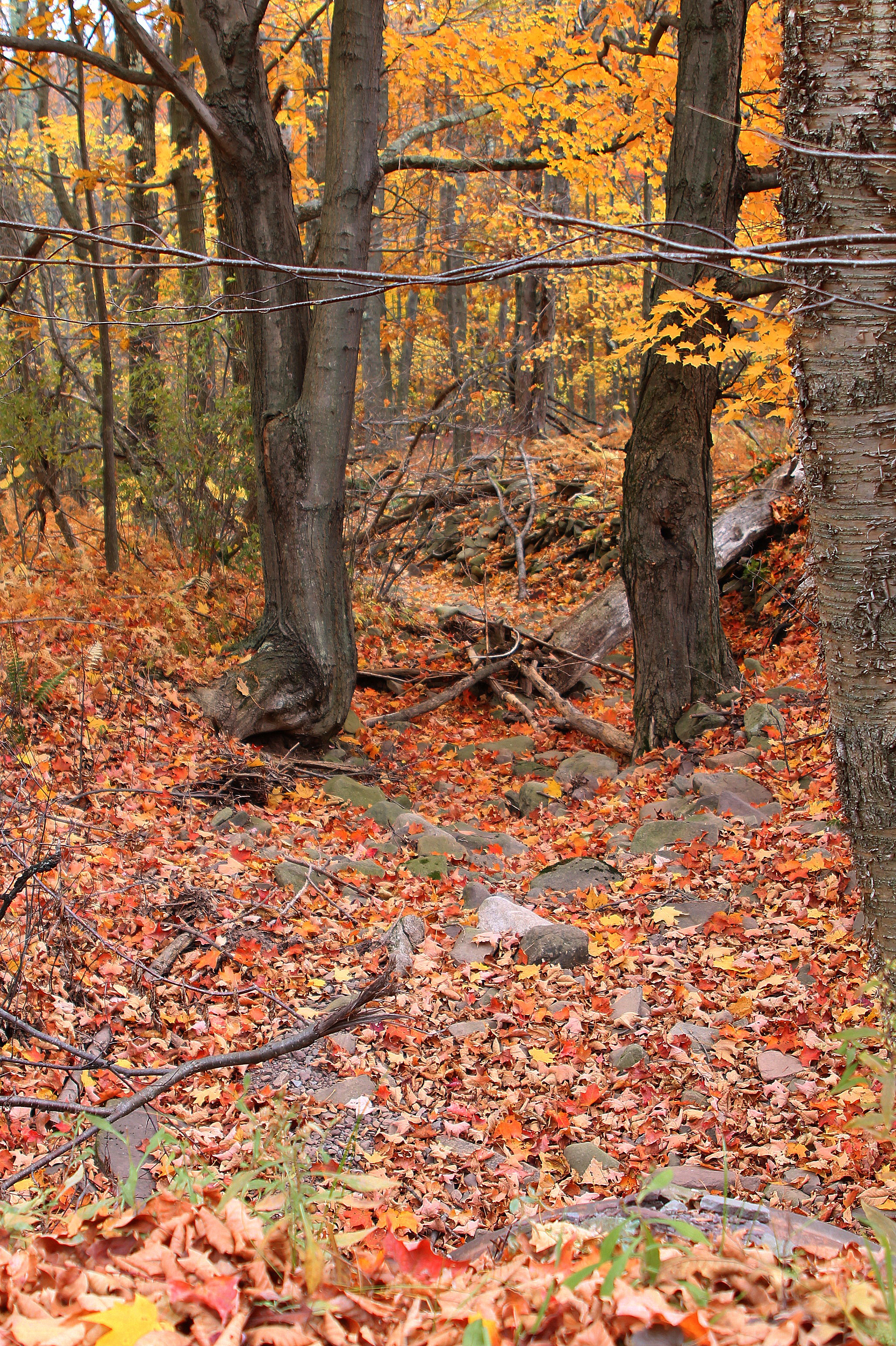 Sorber Run looking downstream in its upper reaches during low flow conditions